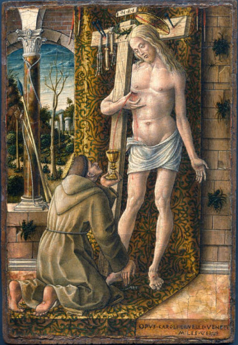 Saint Francis Collecting the Blood of Christ label QS:Lit,"sangue di cristo" label QS:Len,"Blood of Christ"